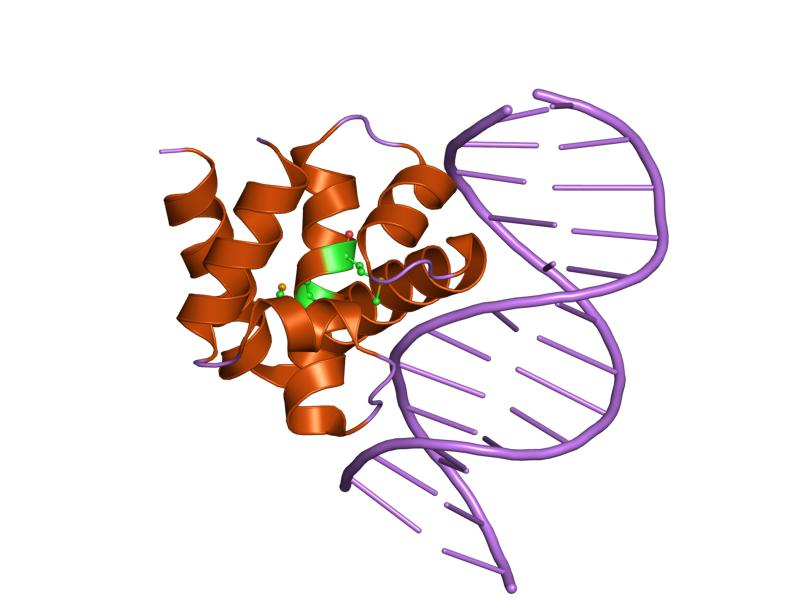 Cartoon representation of the molecular structure of protein registered with 1j1v code.